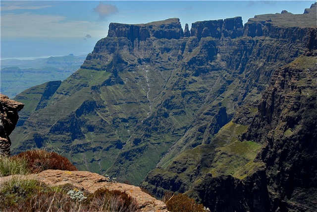 Royal Natal National Park, Ukhahlamba Drakensburg, South Africa.